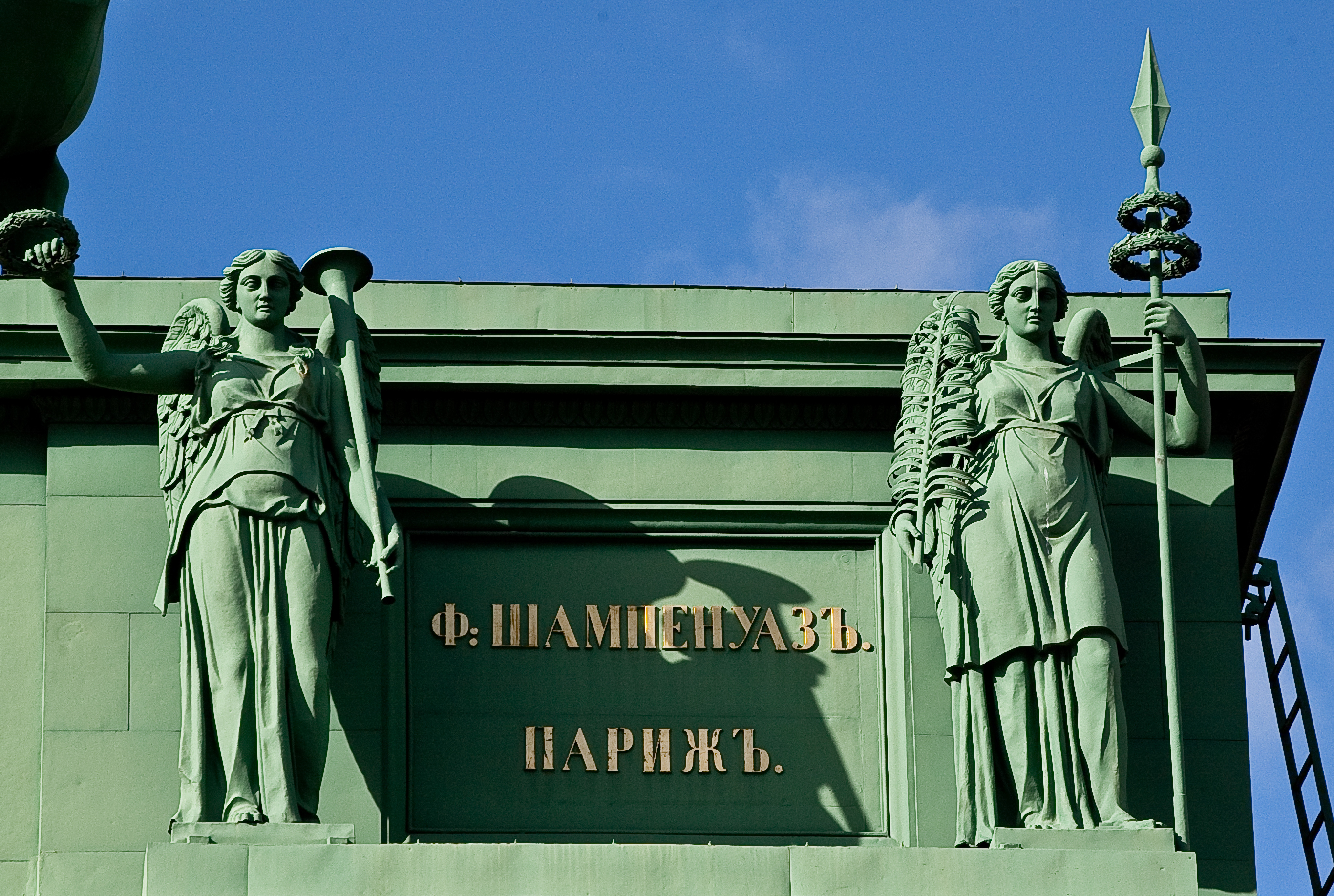 Narva Triumphal Gate.